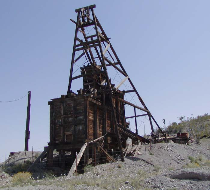 Photo of old minehead at Searchlight, Nevada